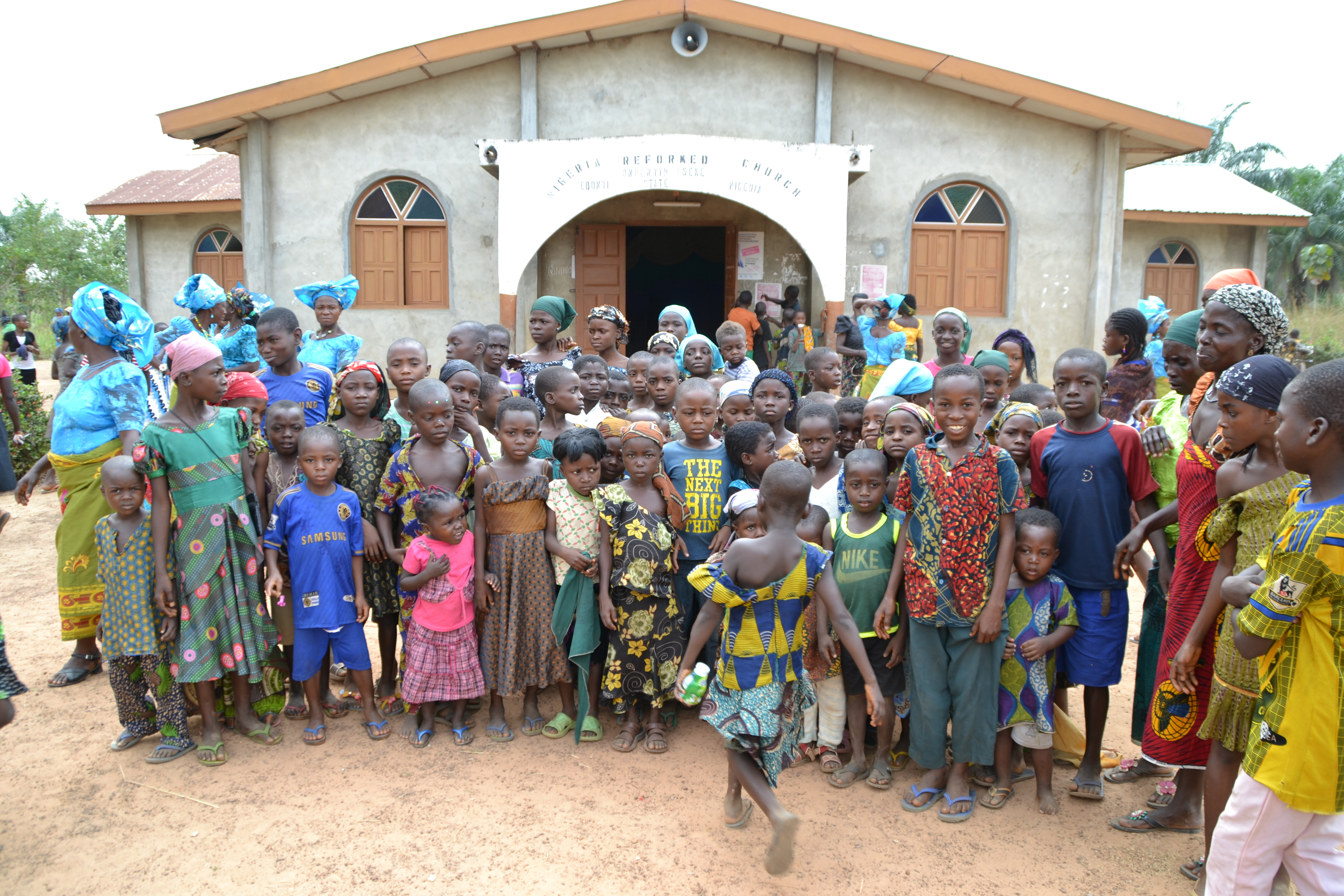 Nigeria Reformed Church Onuenyim Iseke